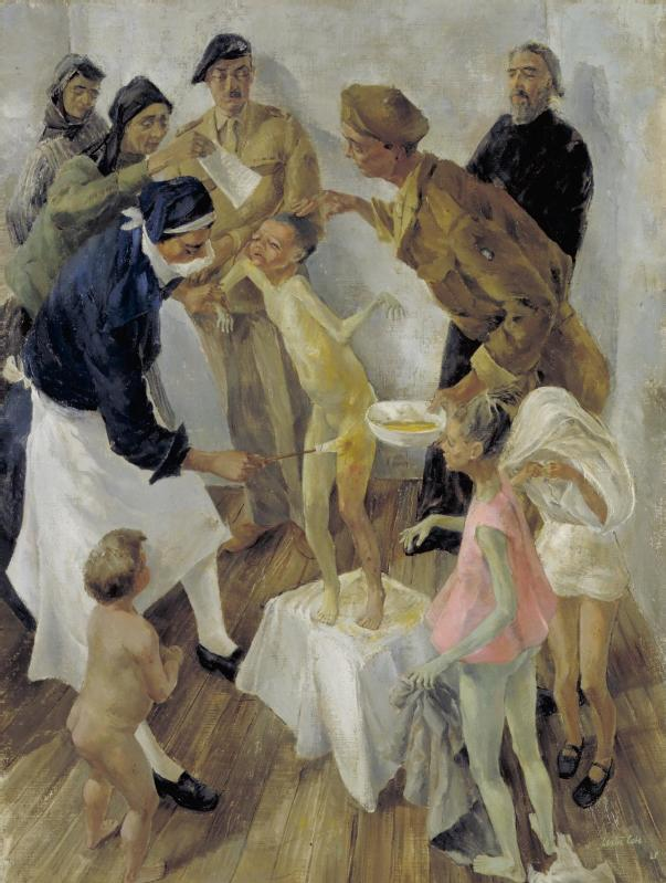 Greece- An orphanage. Curing scabies with anachryl image: A distressed young girl being painted with anachryl by a masked nurse, attended by two women, a priest and two British soldiers. Three other children await their turn.